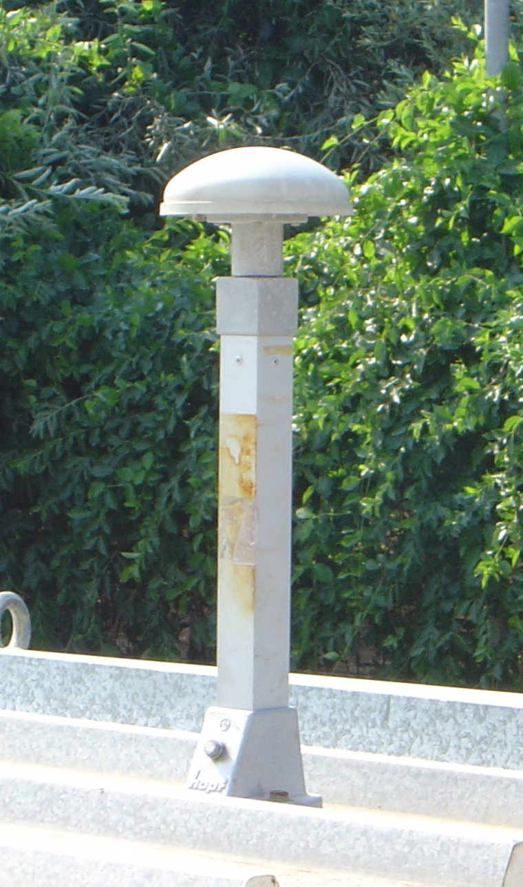 A roof antenna for a GPS system